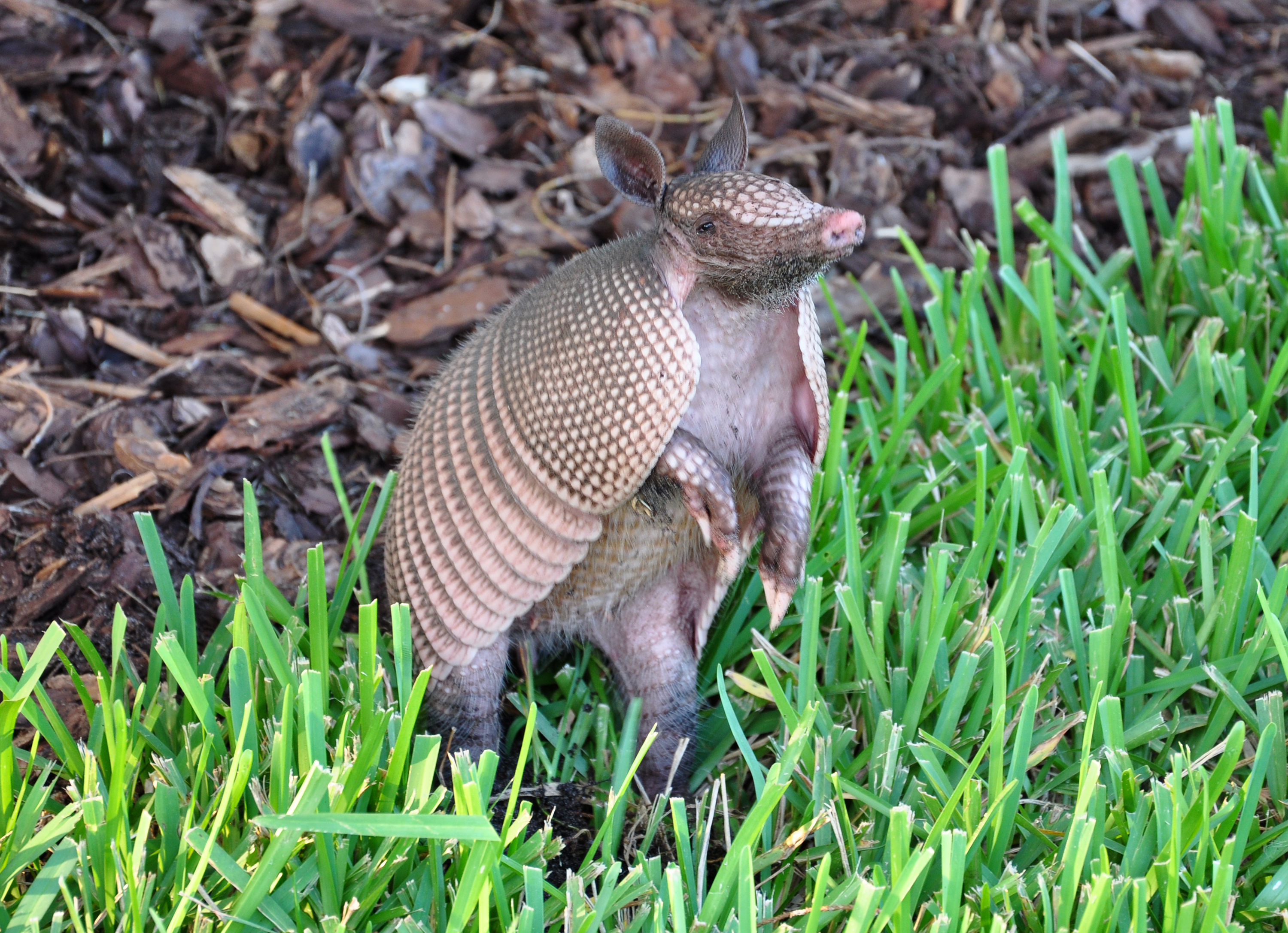 Armadillo playing in the grass in Palm Coast, FL